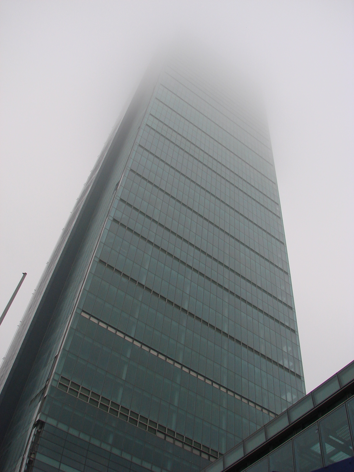 Istanbul Sapphire in a foggy day